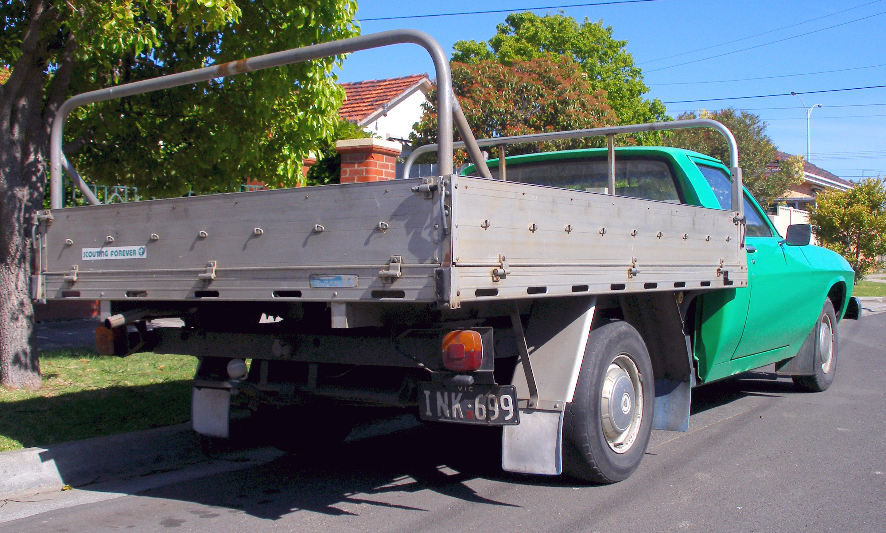 1974–1976 Holden HJ One Tonner cab chassis, photographed in Victoria, Australia.